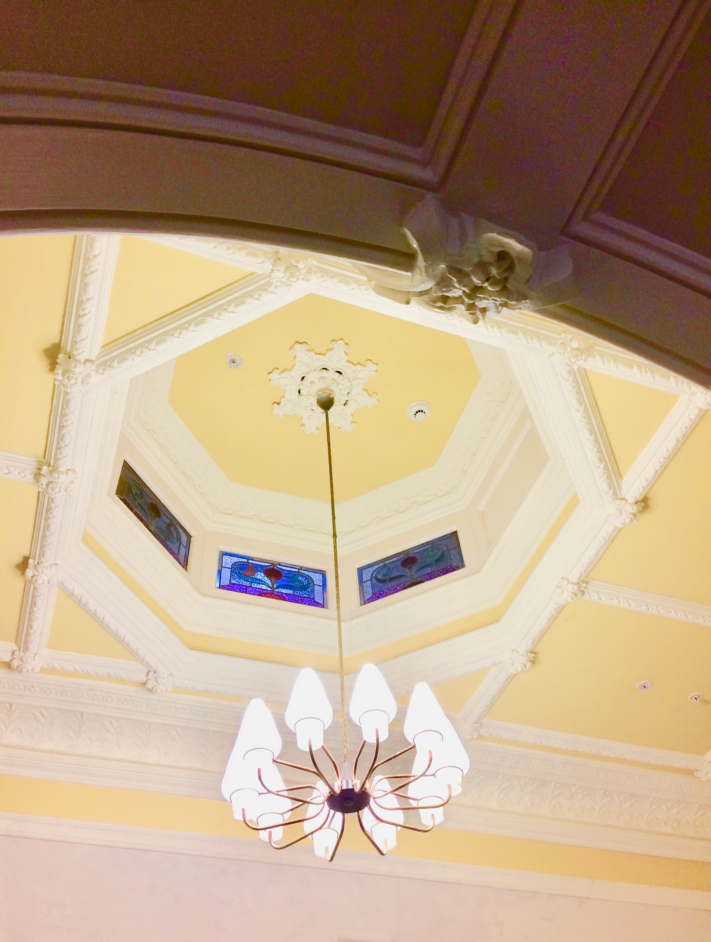 Photo of interior foyer of "Esleta"/Eyres House, Soldiers Hill